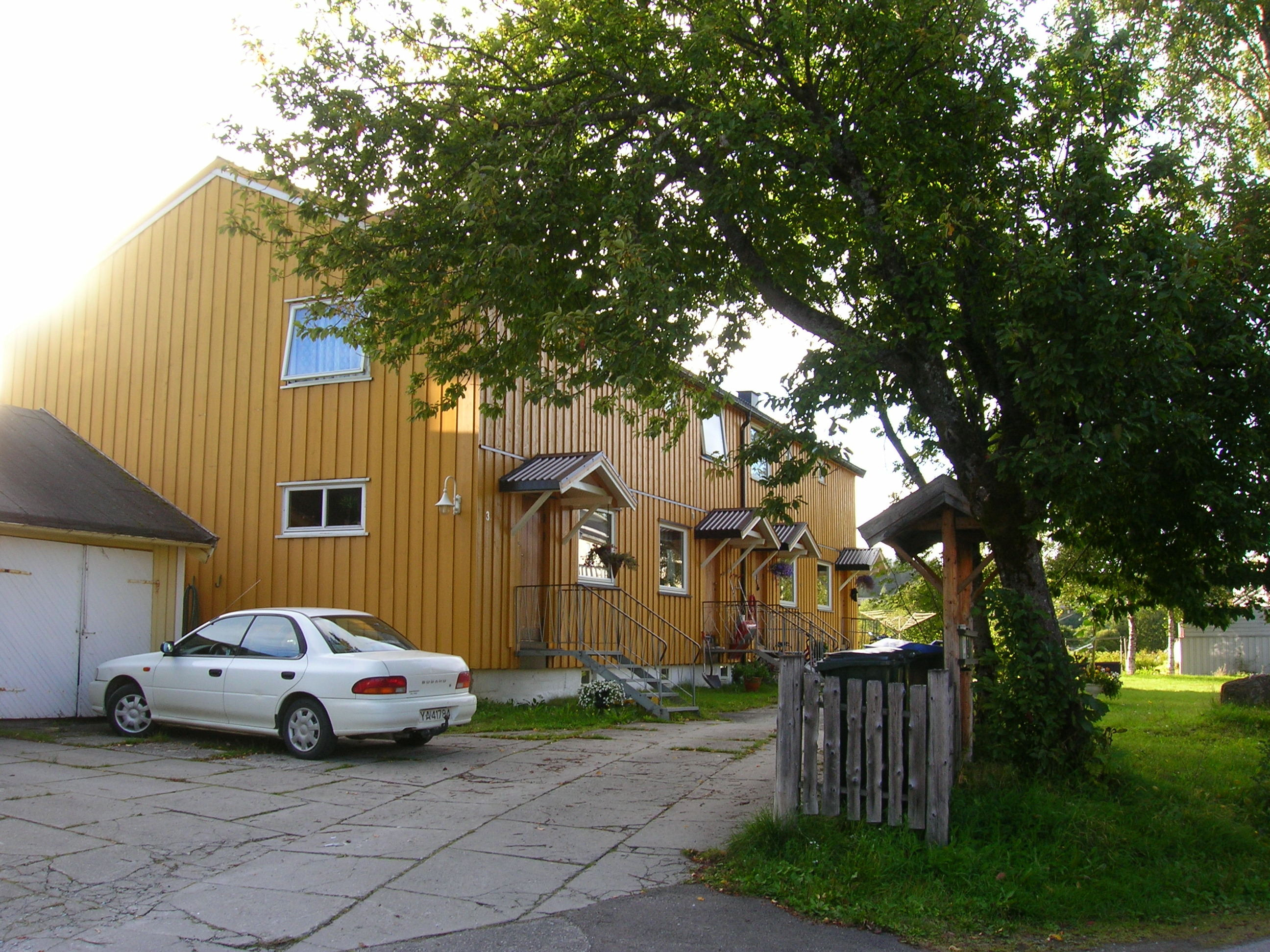 Selfors housing cooperative on Selfors, north of Mo i Rana, Rana municipality, county of Nordland, Norway, Photo 4 September, 2007 with a Nikon Coolpix 5600 5,1 Megapixel camera.